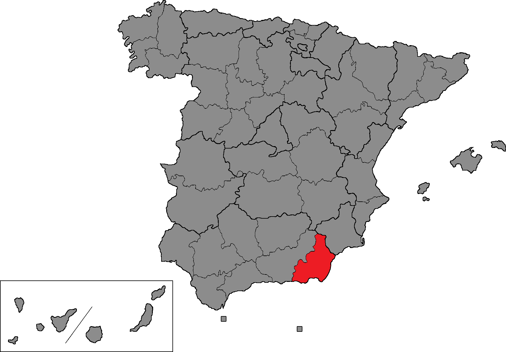 Spanish Congress of Deputies district of Almería.